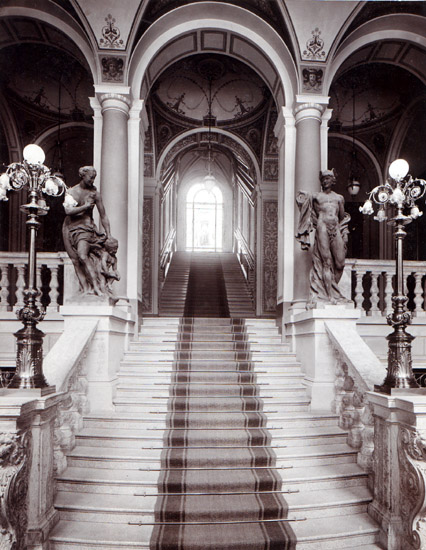 Mail buiding of Museum of Decorative Arts in Prague